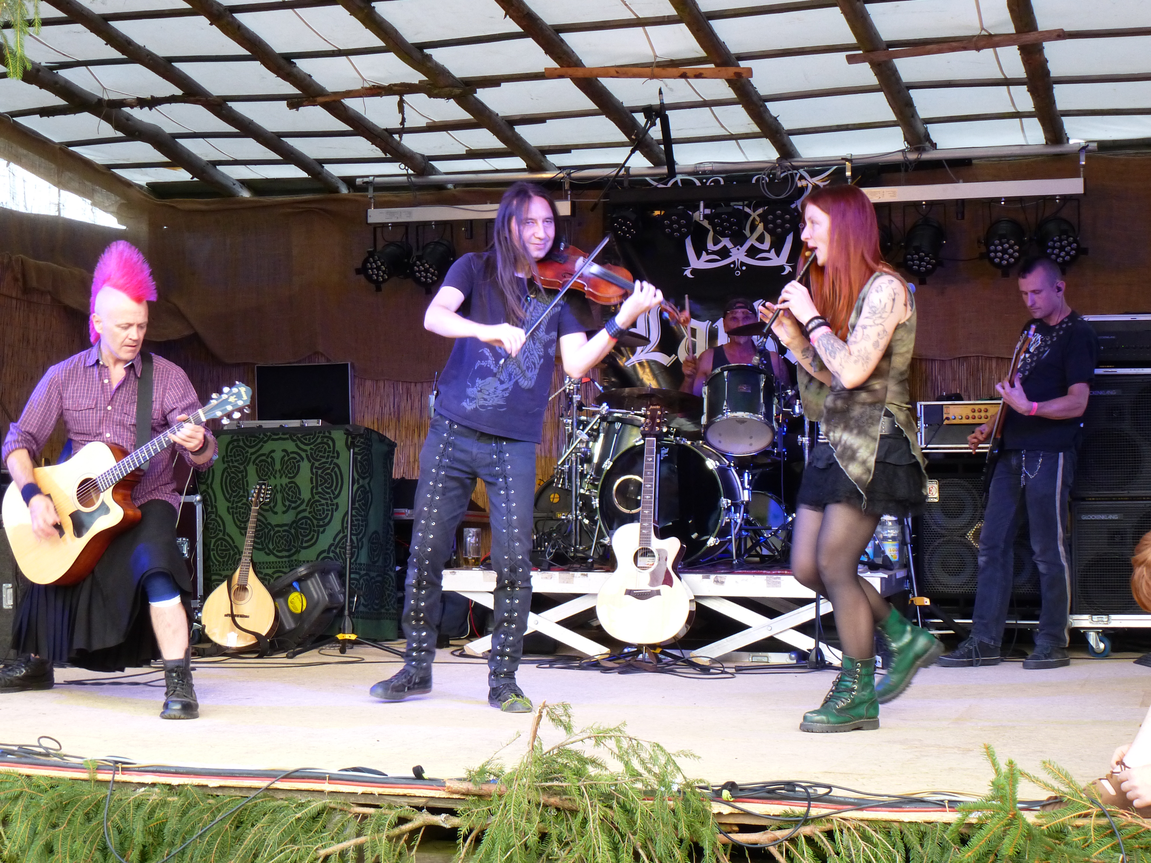 Larkin & Irish Beat Dance Company at the 25th Altburgfestival at the historic celts settlement Altburg / Hunsrueck mountains range, Rhineland-Palatinate, Germany